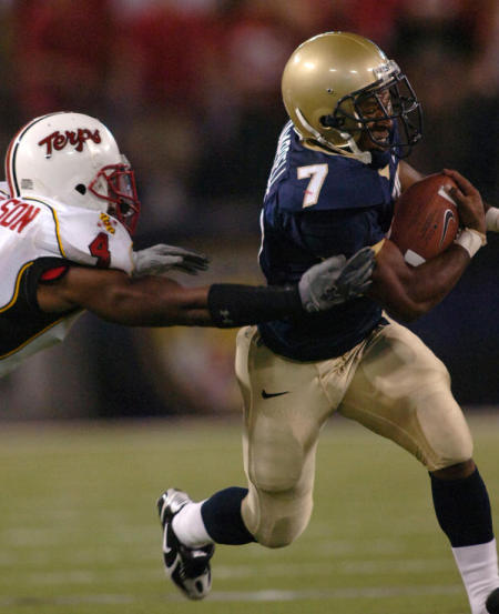 Maryland cornerback Josh Wilson (#4) attempts to tackle Navy slotback Reggie Campbell (#7) during the 2005 Maryland–Navy game at M&T Bank Stadium in Baltimore, Maryland.